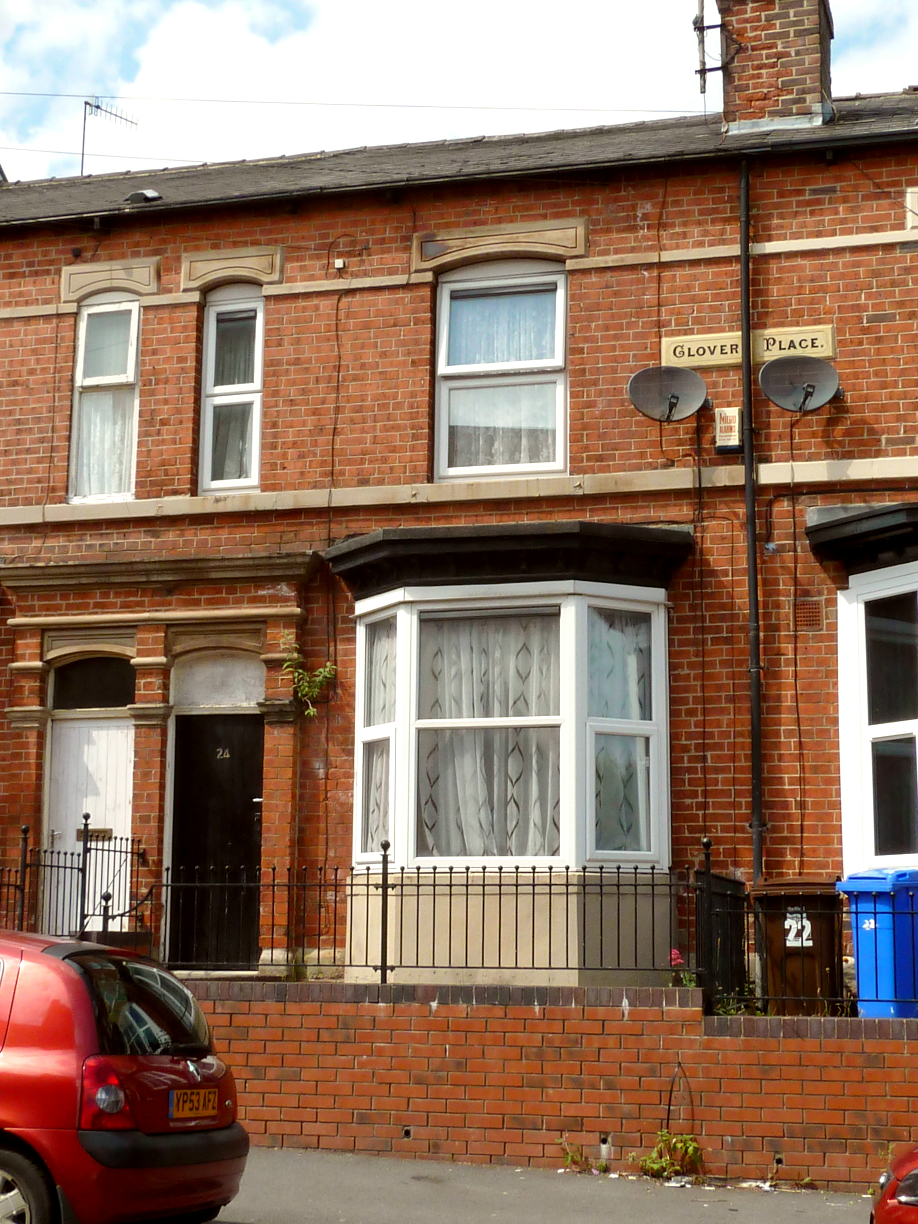 24 Glover Road (formerly Glover Place) in Highfield, Sheffield, West Yorkshire, England. This was the last habitation of the etcher Thomas Skinner, in 1881.